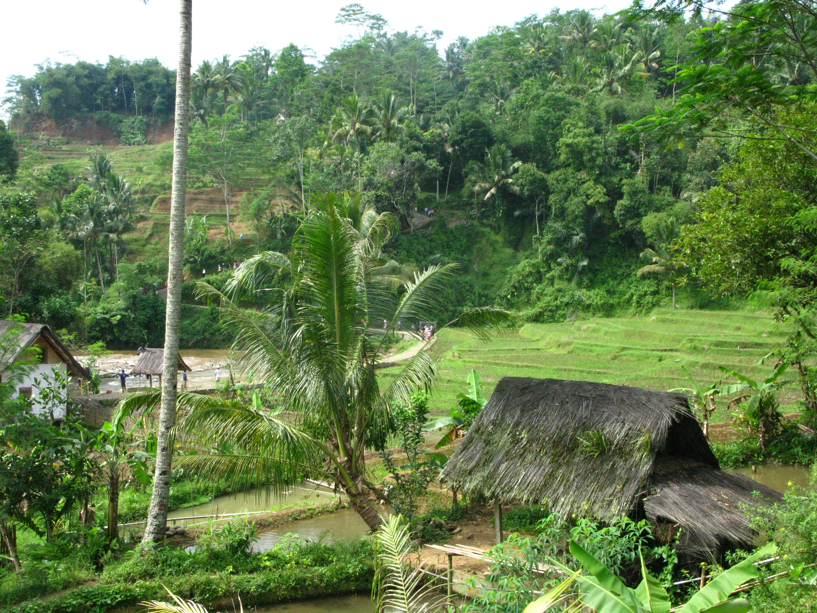 Kampung Naga village - Tasikmalaya, Indonesia